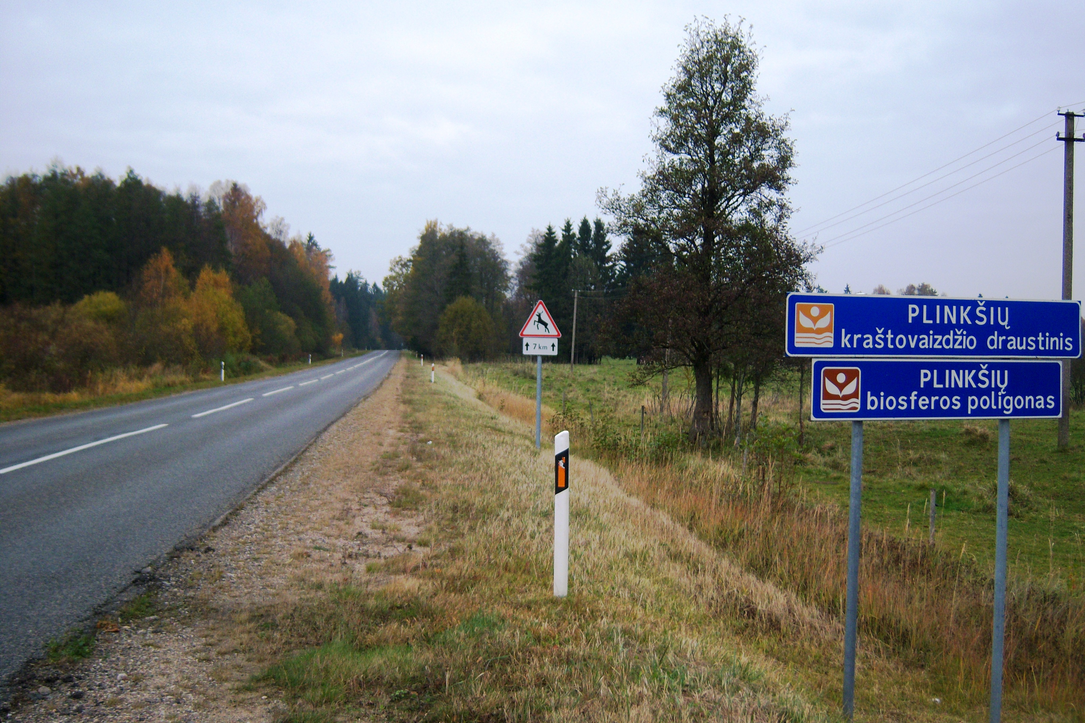 Road KK161 Telšiai-Seda through Plinkšiai landscape reserve, Lithuania